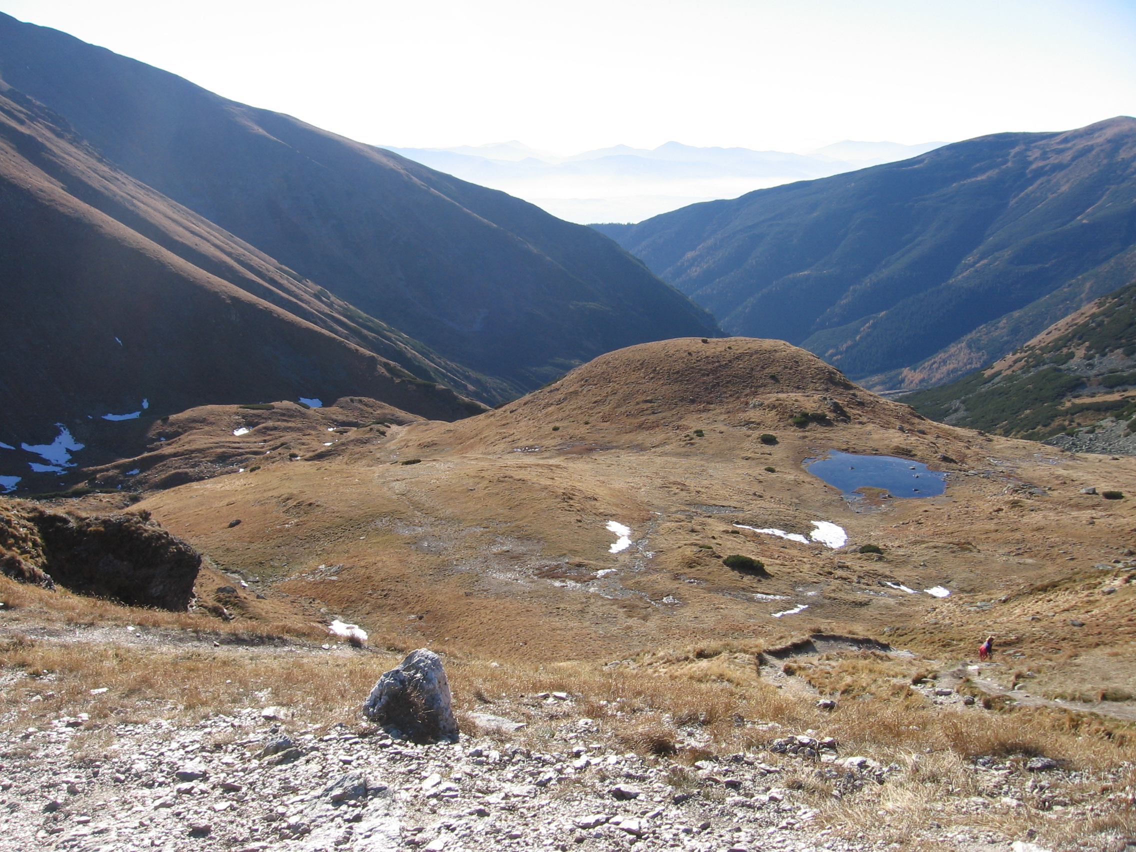 Žiarske pliesko from Žiarska dolina Valley in Western Tatras in Slovakia